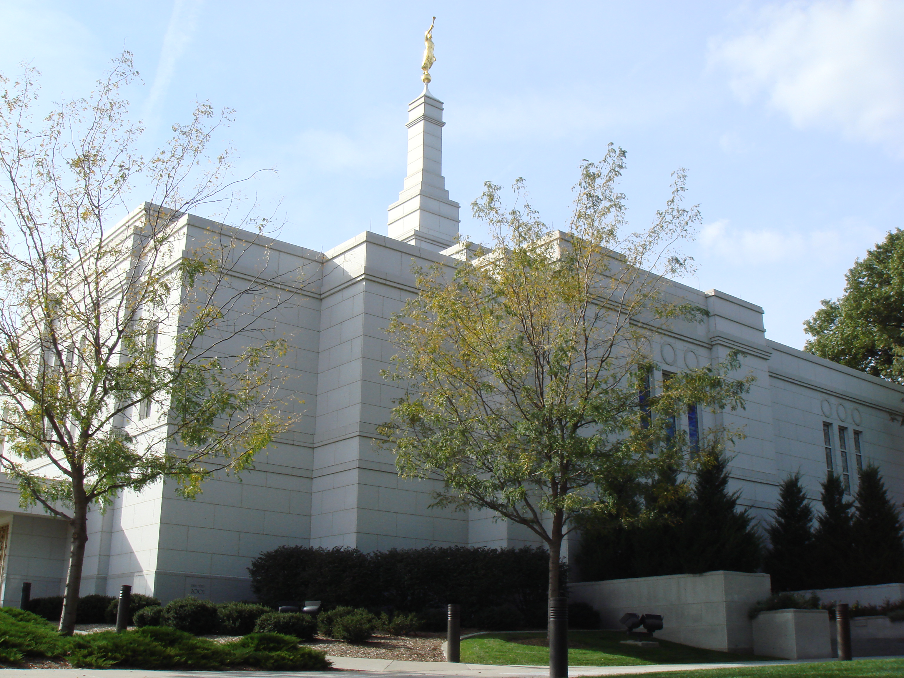 The Winter Quarters Nebraska Temple. Taken by User:Dannywsu on 9/28/06.